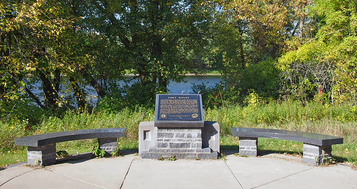 Fort Ripley historical marker at a Minnesota Department of Natural Resources public water access off Highway 371, Minnesota, USA.